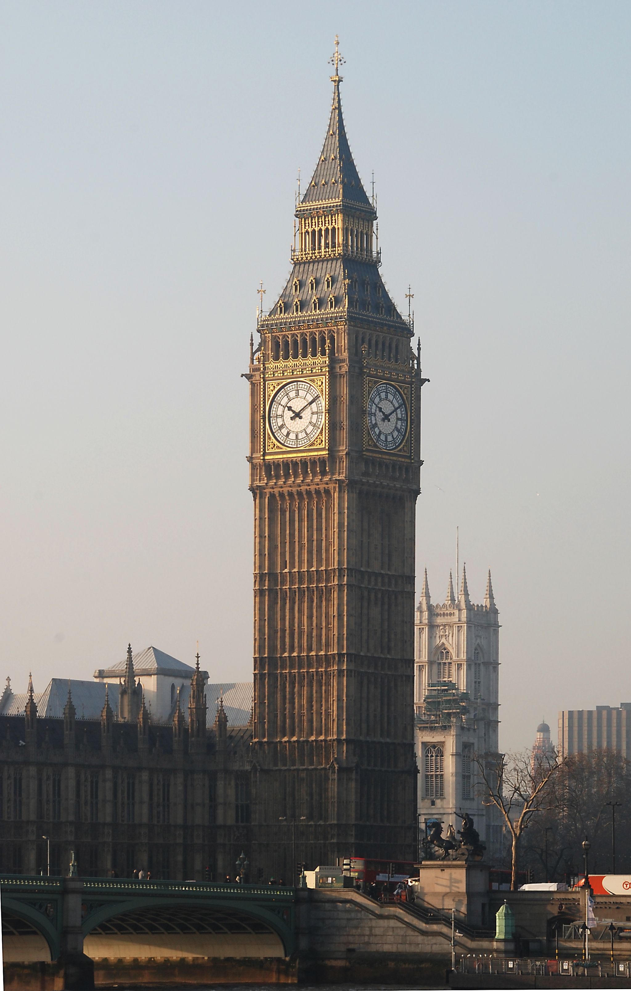 The Big Ben, London, view from across the Thames.